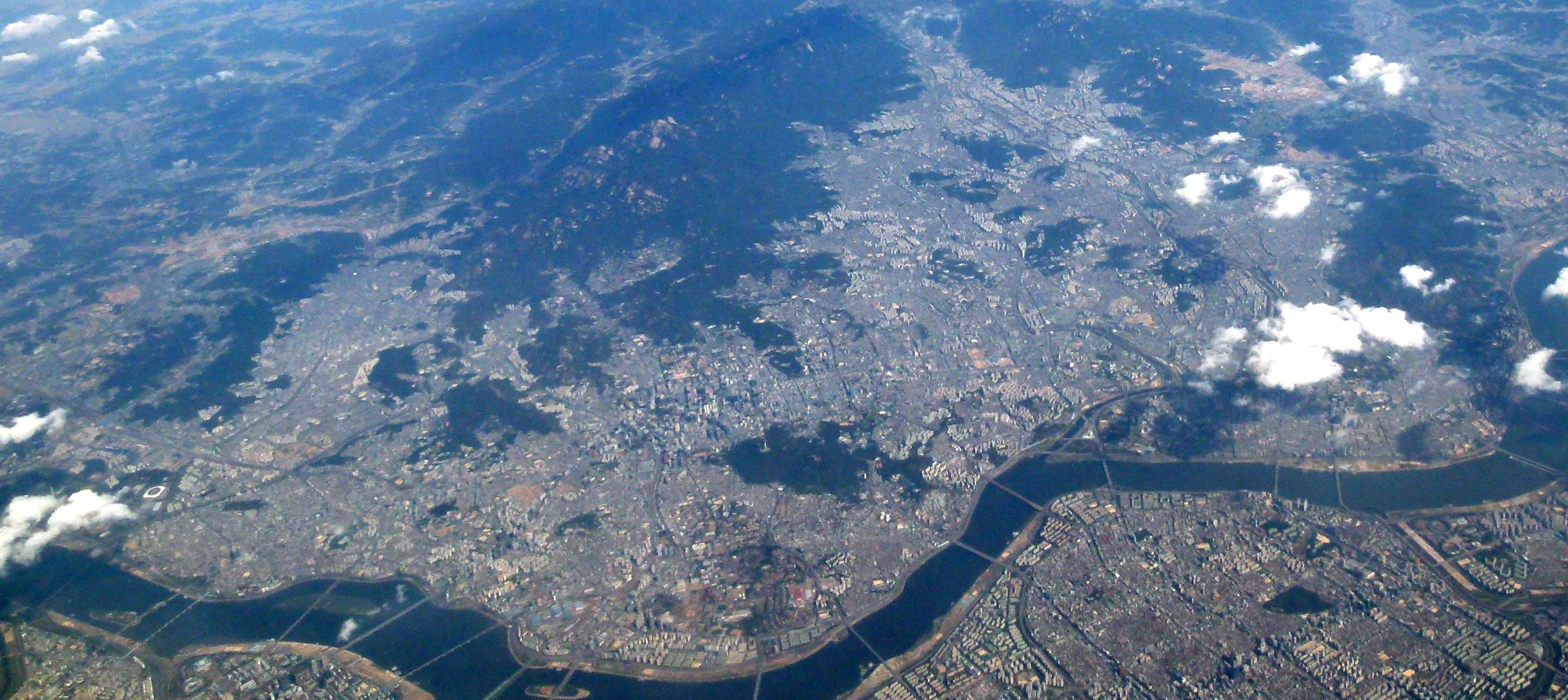 Aerial view of Seoul